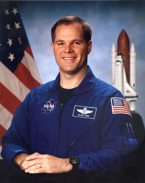 Picture of Astronaut Kevin Ford.